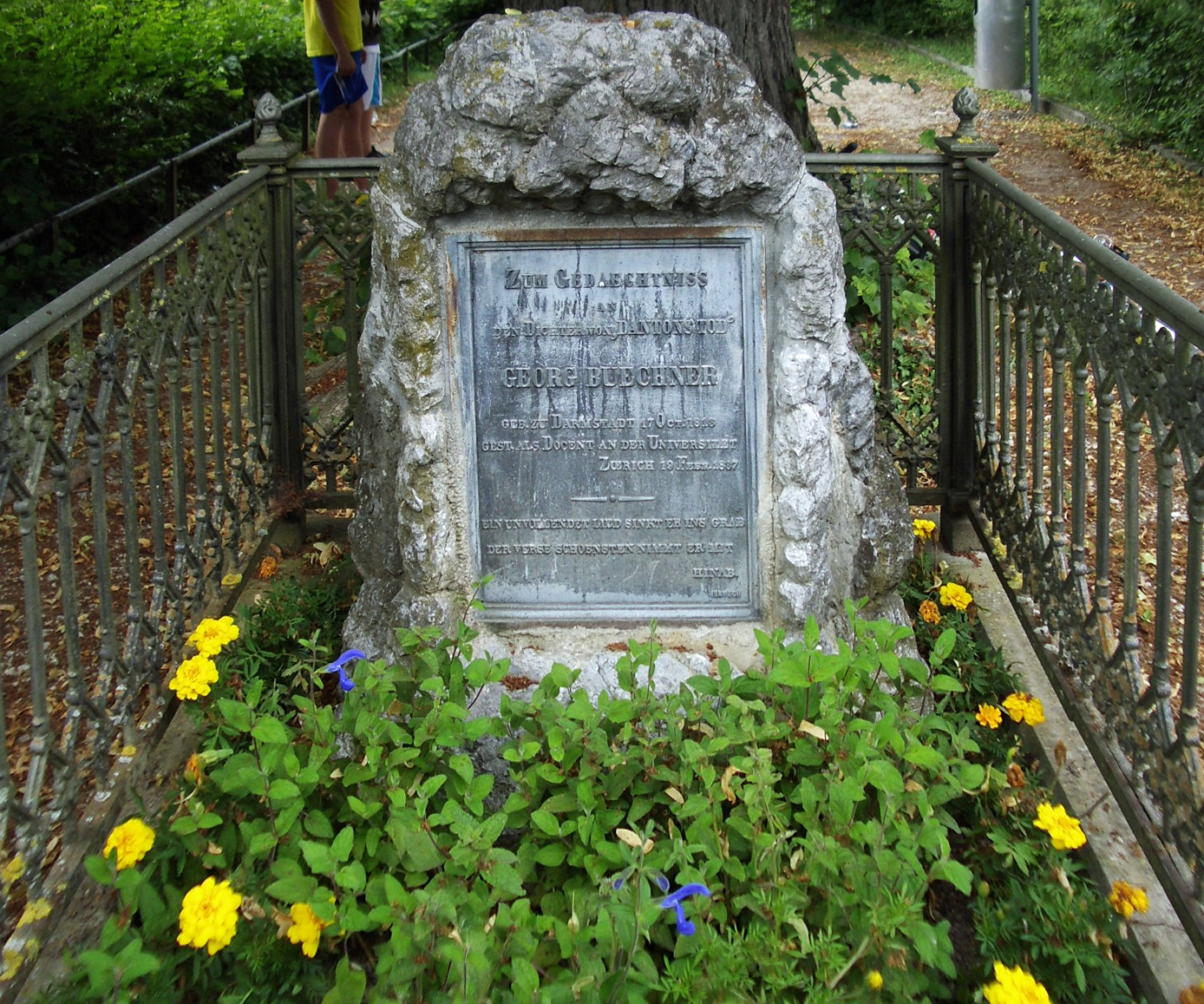 Büchners Grave stone in Zurich, Switzerland